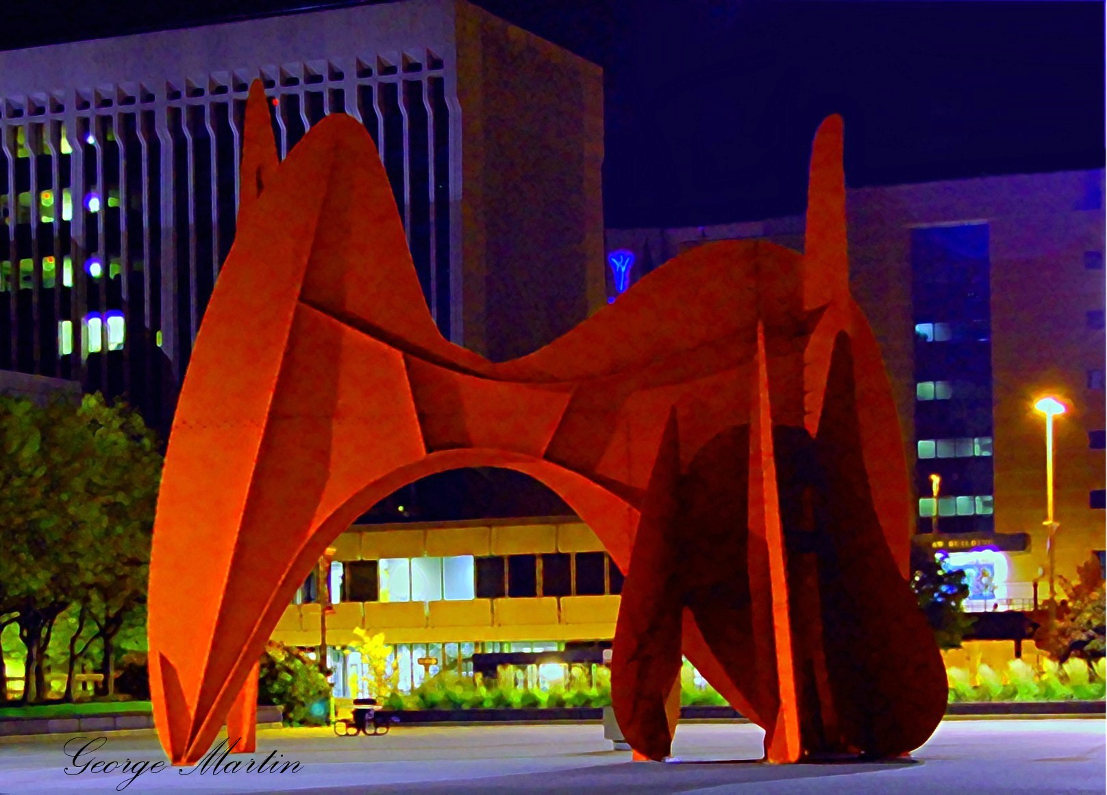 La Grande Vitesse in Grand Rapids, Michigan.